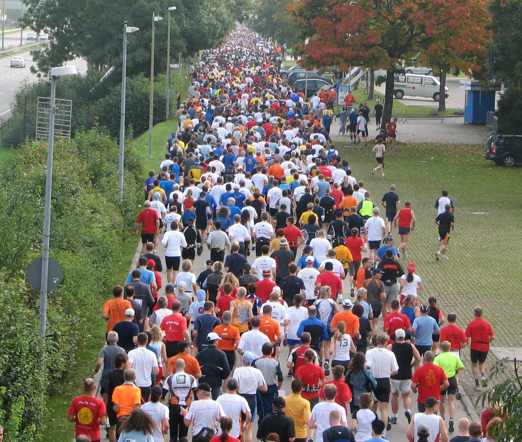 Munich Marathon 2005: Start Block B, Munich, Bavaria.